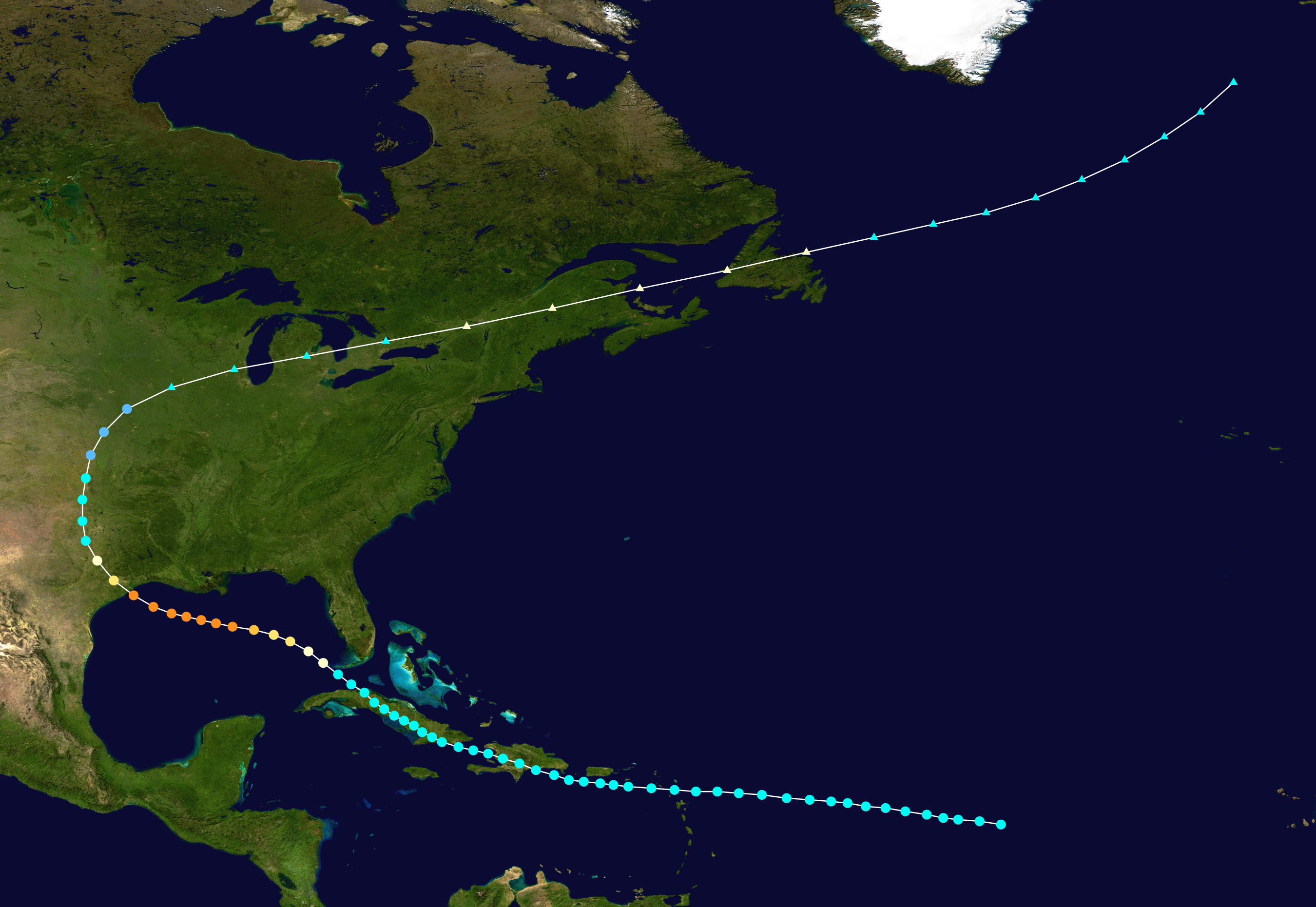 Track map of The Great Galveston Hurricane of 1900 of the 1900 Atlantic hurricane season. The points show the location of the storm at 6-hour intervals. The colour represents the storm's maximum sustained wind speeds as classified in the Saffir–Simpson scale (see below), and the shape of the data points represent the nature of the storm, according to the legend below. Saffir–Simpson scale Tropical depression≤38 mph≤62 km/h Category 3111–129 mph178–208 km/h Tropical storm39–73 mph63–118 km/h Category 4130–156 mph209–251 km/h Category 174–95 mph119–153 km/h Category 5≥157 mph≥252 km/h Category 296–110 mph154–177 km/h Unknown Storm type Tropical cyclone Subtropical cyclone Extratropical cyclone / Remnant low / Tropical disturbance / Monsoon depression